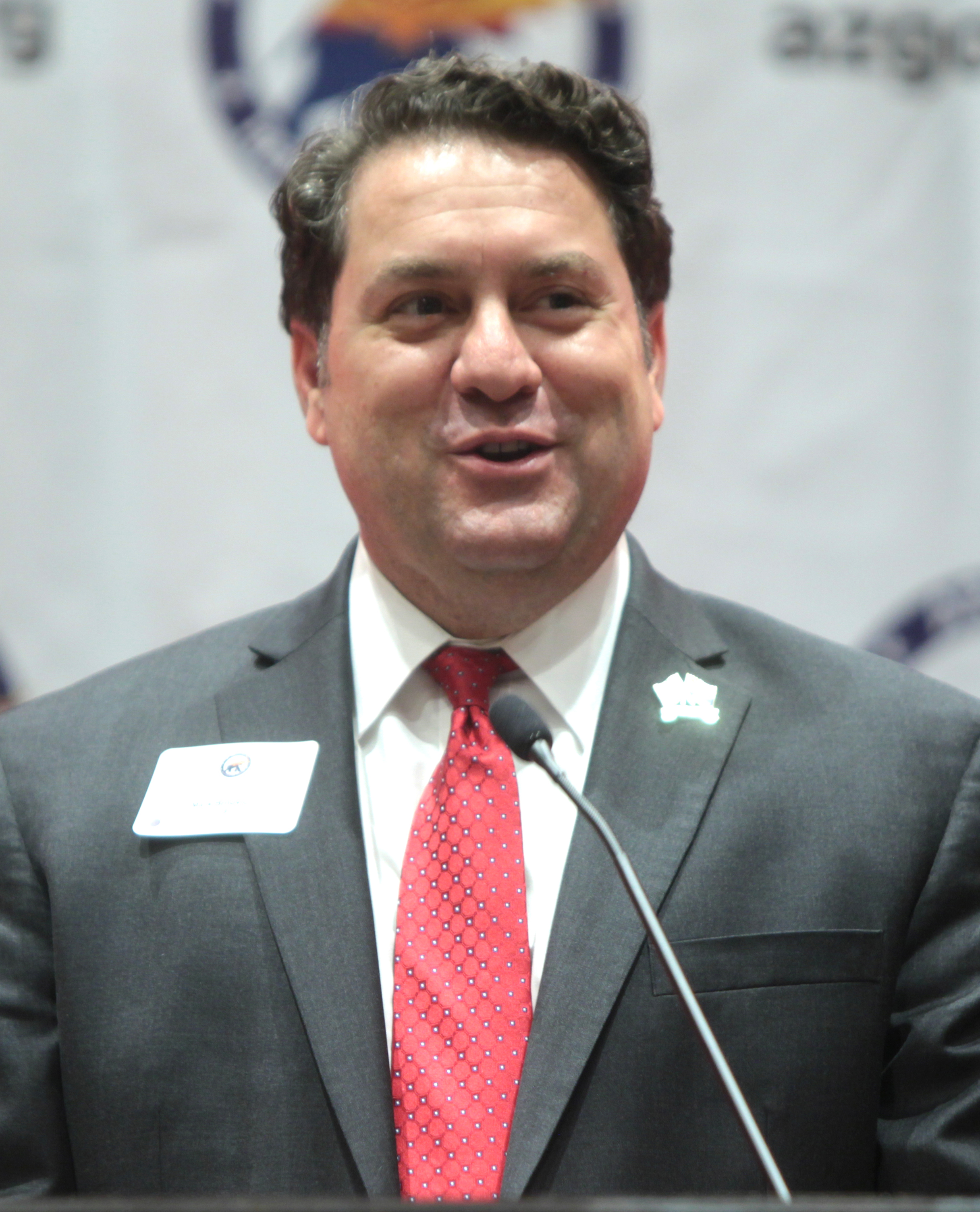 Mark Brnovich speaking at a campaign rally in Scottsdale, Arizona.